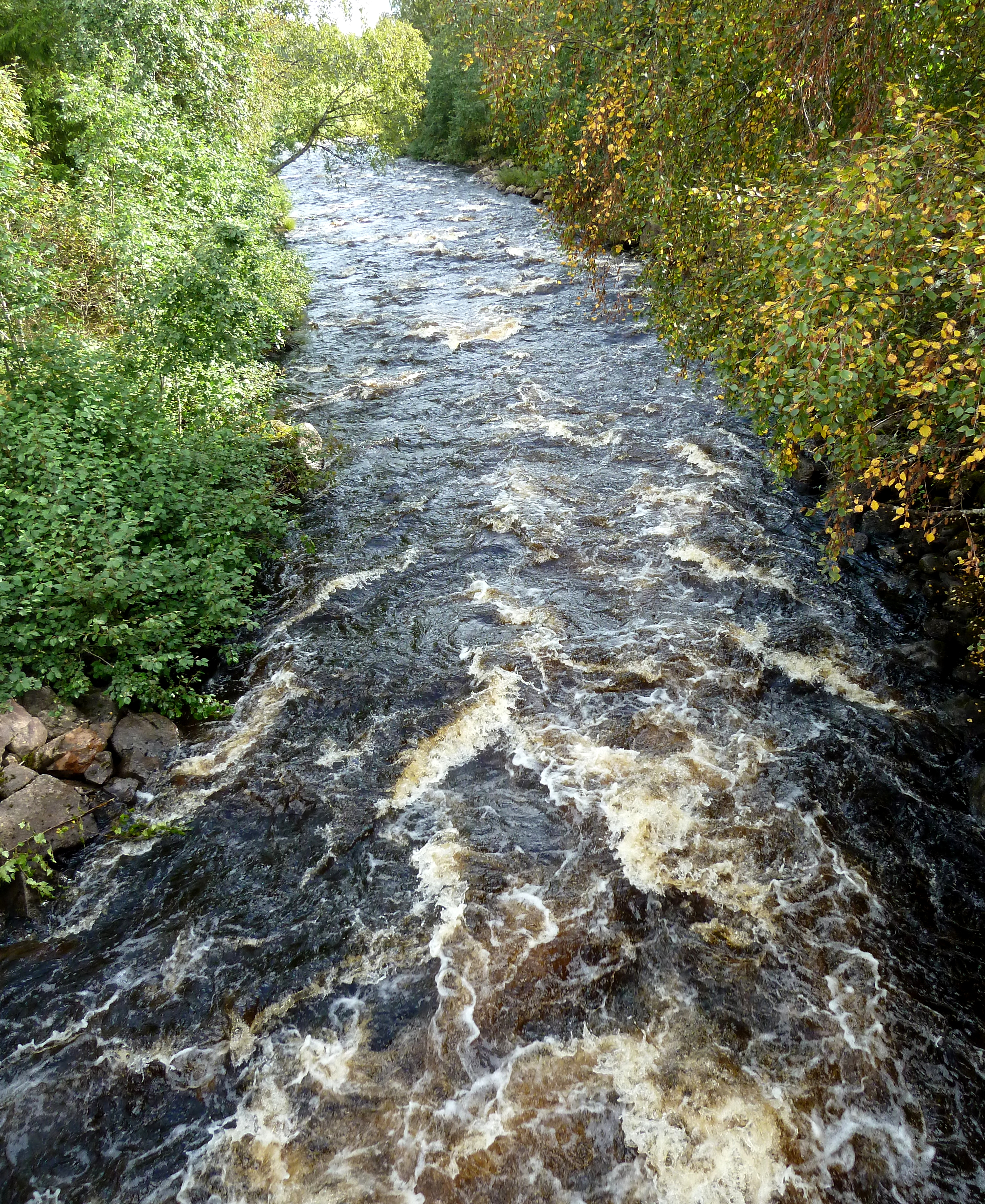 Rapids in Södra Anundsjöån, Ångermanland, Sweden.